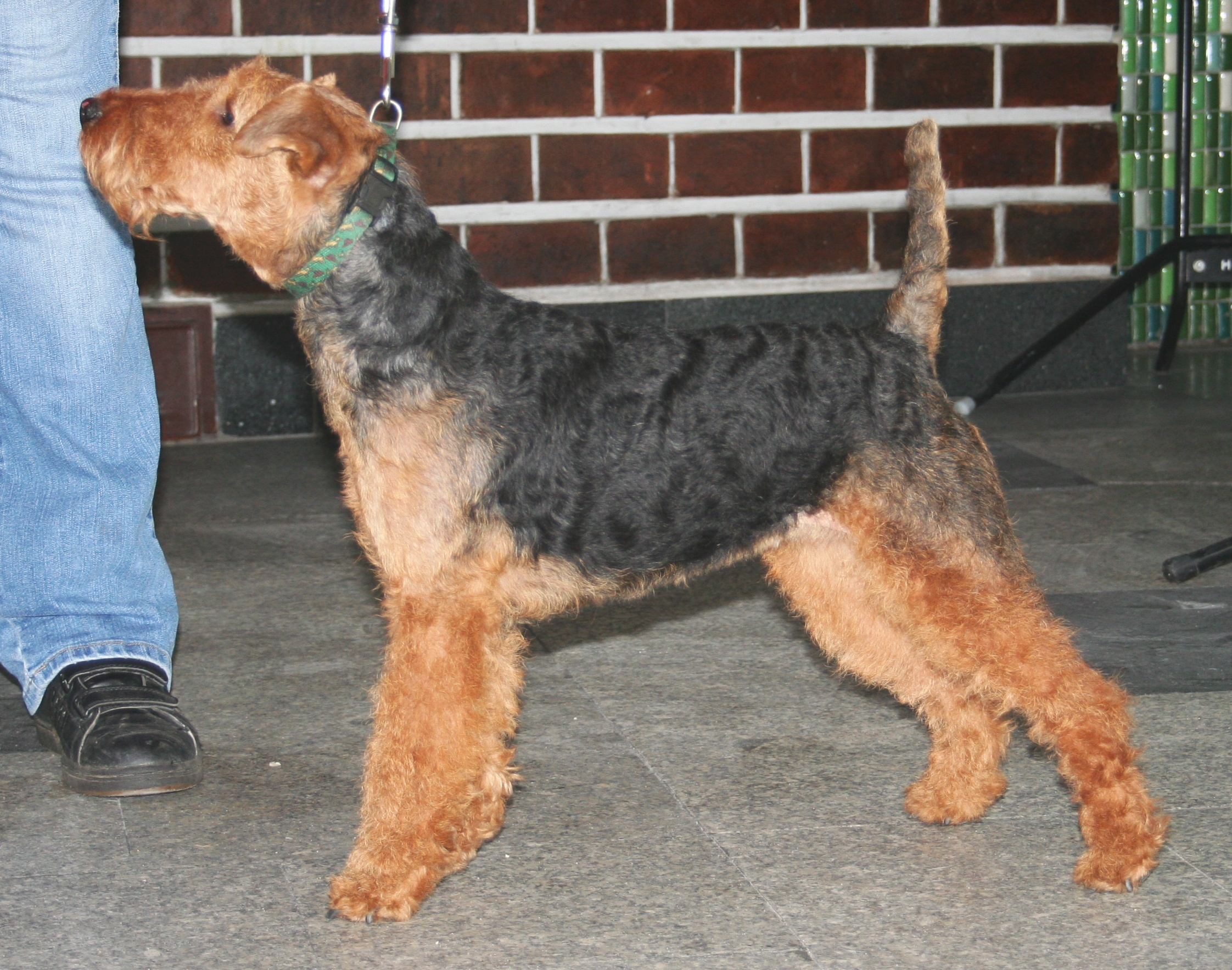 Welsh Terrier during the international dogs show in Katowice, Poland.